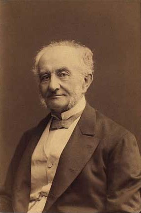 Claus Jacob Emil Hornemann (1810-1890), Danish physician (not to be confused with the Danish composer Emil Horneman)